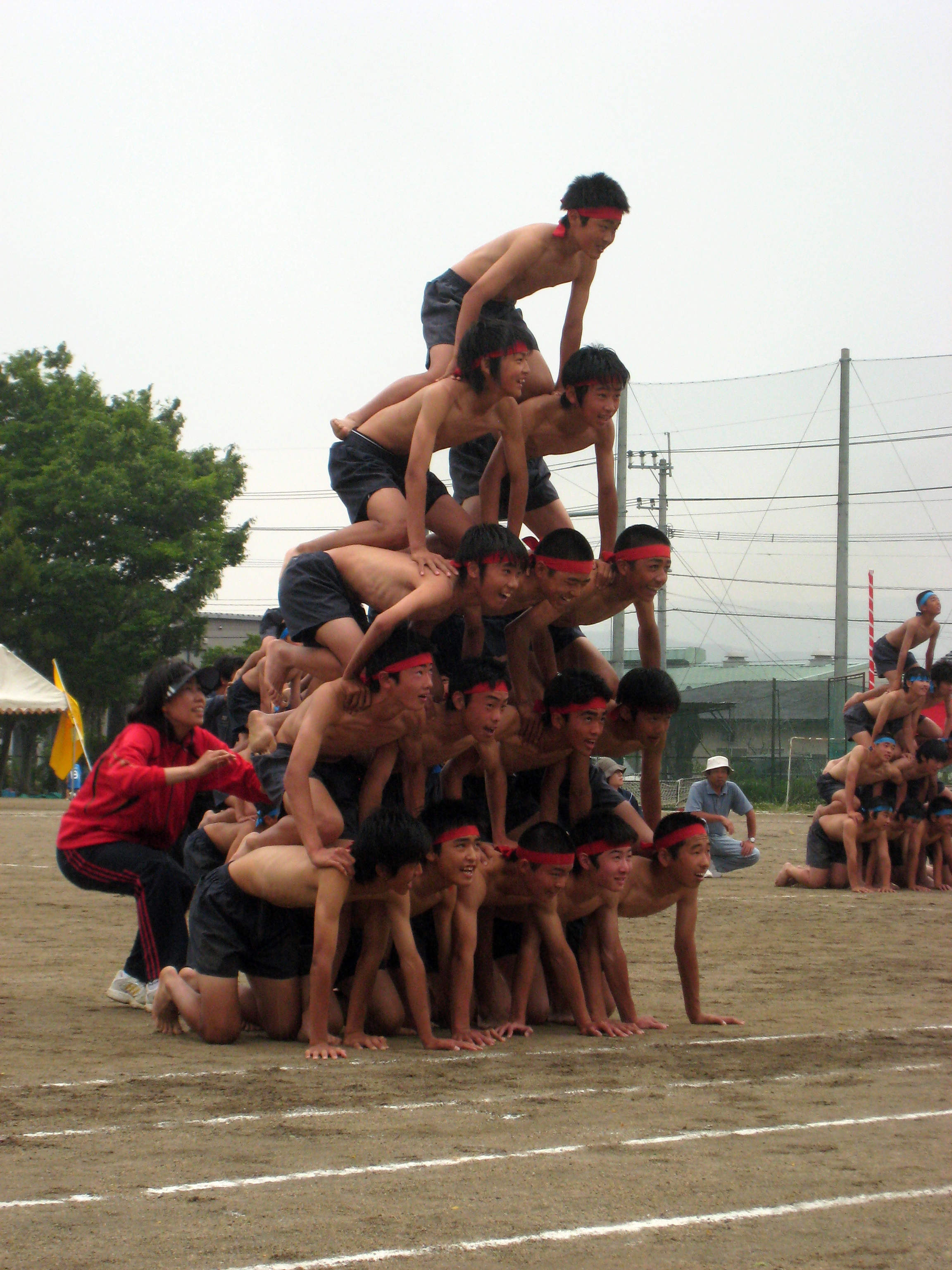 Every school in Japan holds an undokai once a year, and this events is preceded by weeks of preparation and practice. The actual sports day is a combination of ceremony, theatrics, and competition all performed with strict discipline. It's a lot of fun to watch!